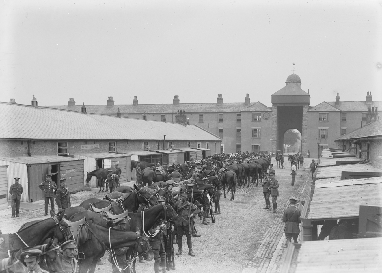 This photo was taken at the Barracks in Newbridge, Co. Kildare. Forage and stores for the horses were kept in the lean-to sheds. And thanks to the clock we know this photo was taken at 11.20 a.m. One quirky feature is that the weather vane atop the cupola is adorned with a crown. Date: Circa 1910 NLI Ref.: Eas 2523